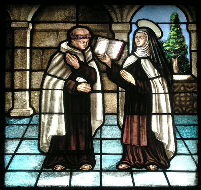 Saint Theresa, church window, Convento de Sta Teresa, Ávila de los Caballeros, Spain